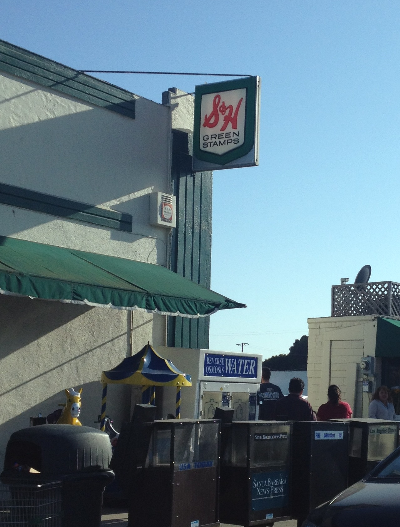 An old S&H Green Stamps sign on a grocery store building, preserved for nostalgic/historic value. Santa Cruz Market in Goleta, California.